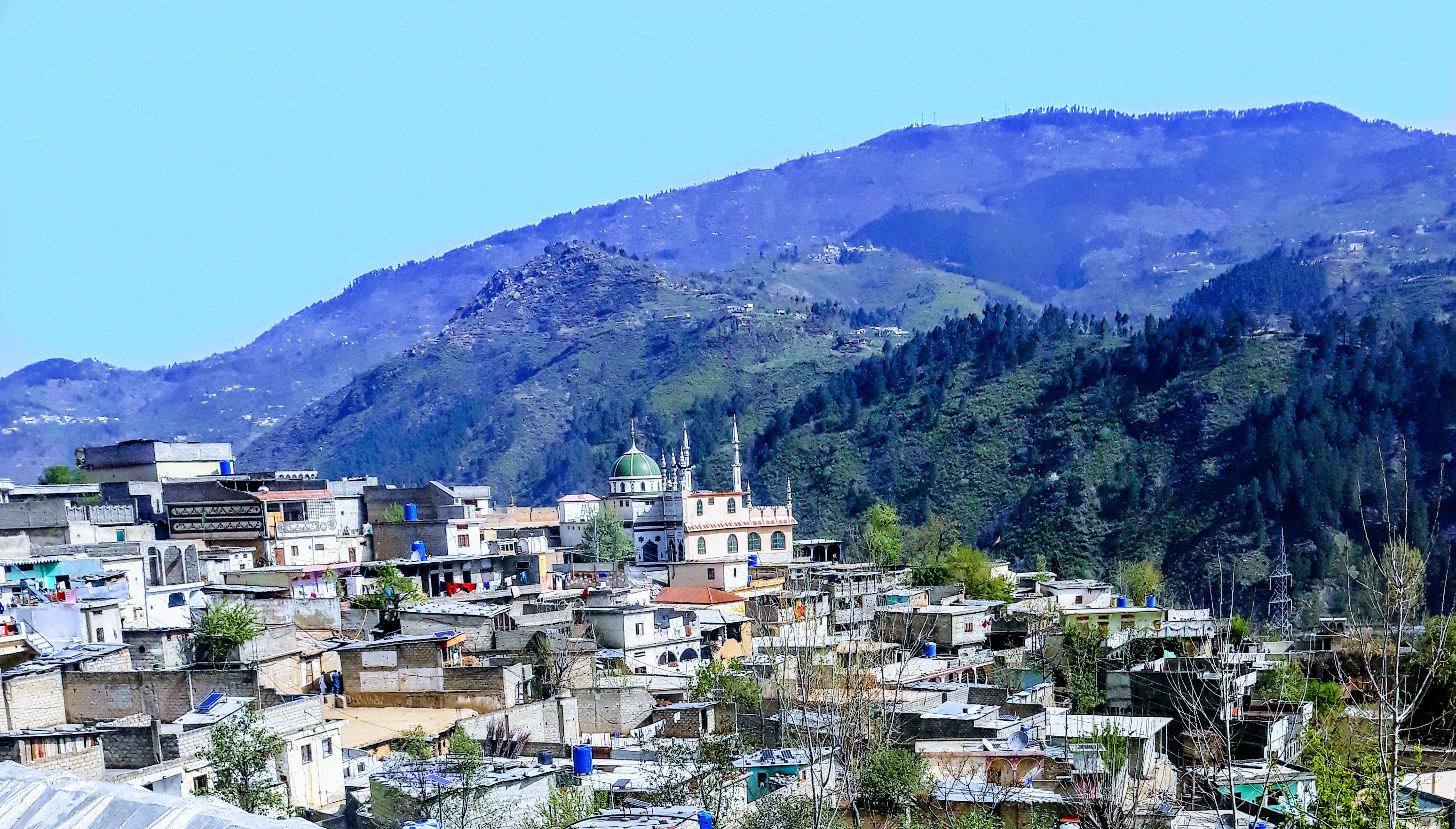 Shingli Bala is a town/village in Battagram District.